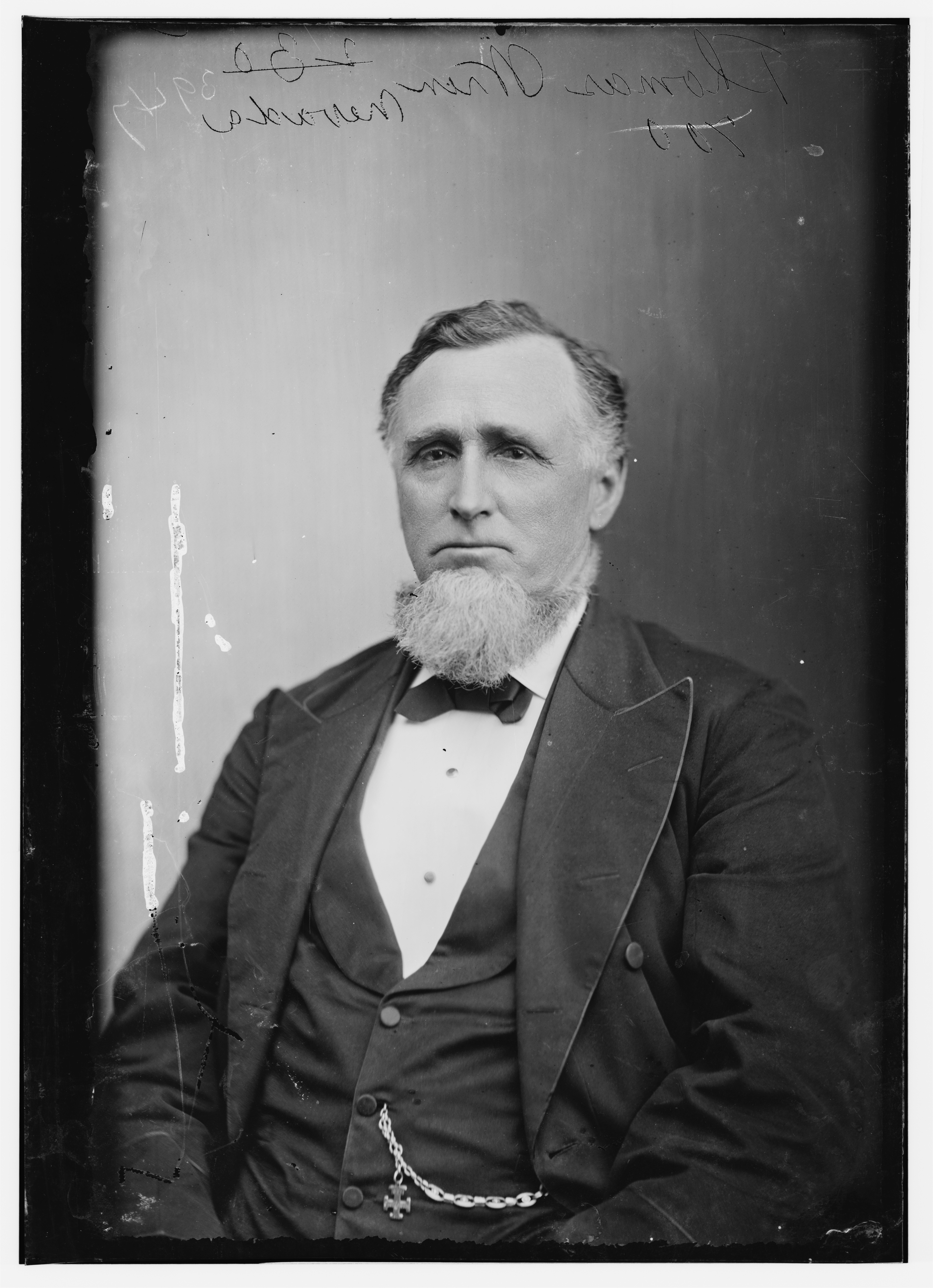 Image of Hon. Thomas Wren of Nevada.